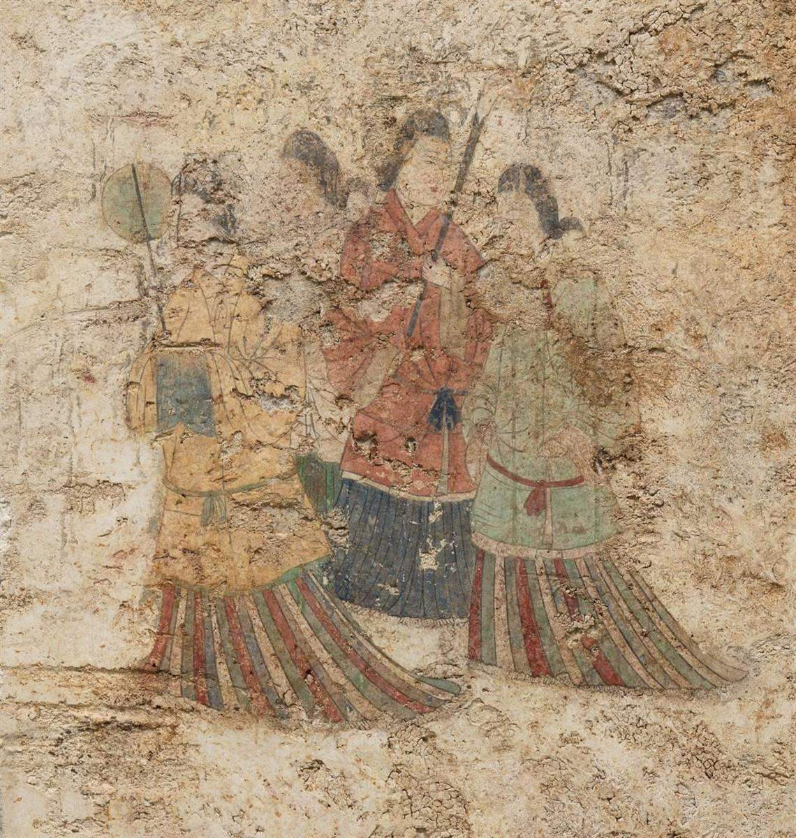 Ancient mural depicting women, painted on the west wall of Takamatsuzuka Tomb.